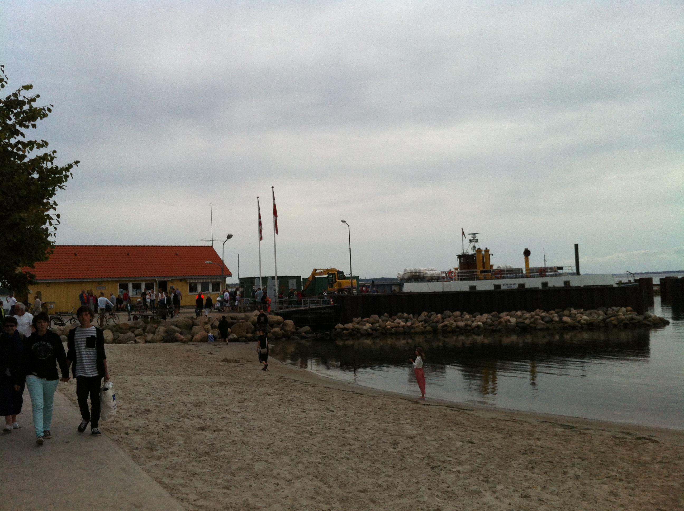 Hundested-Rørvig Ferry in Rørvig, Denmark